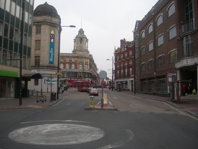 Falcon Road, SW11 (1) Photographer standing at junction of Falcon Lane and looking S, towards the shopping area of St John's Road. The shop in the centre of shot is Debenhams, formerly Arding and Hobbs.